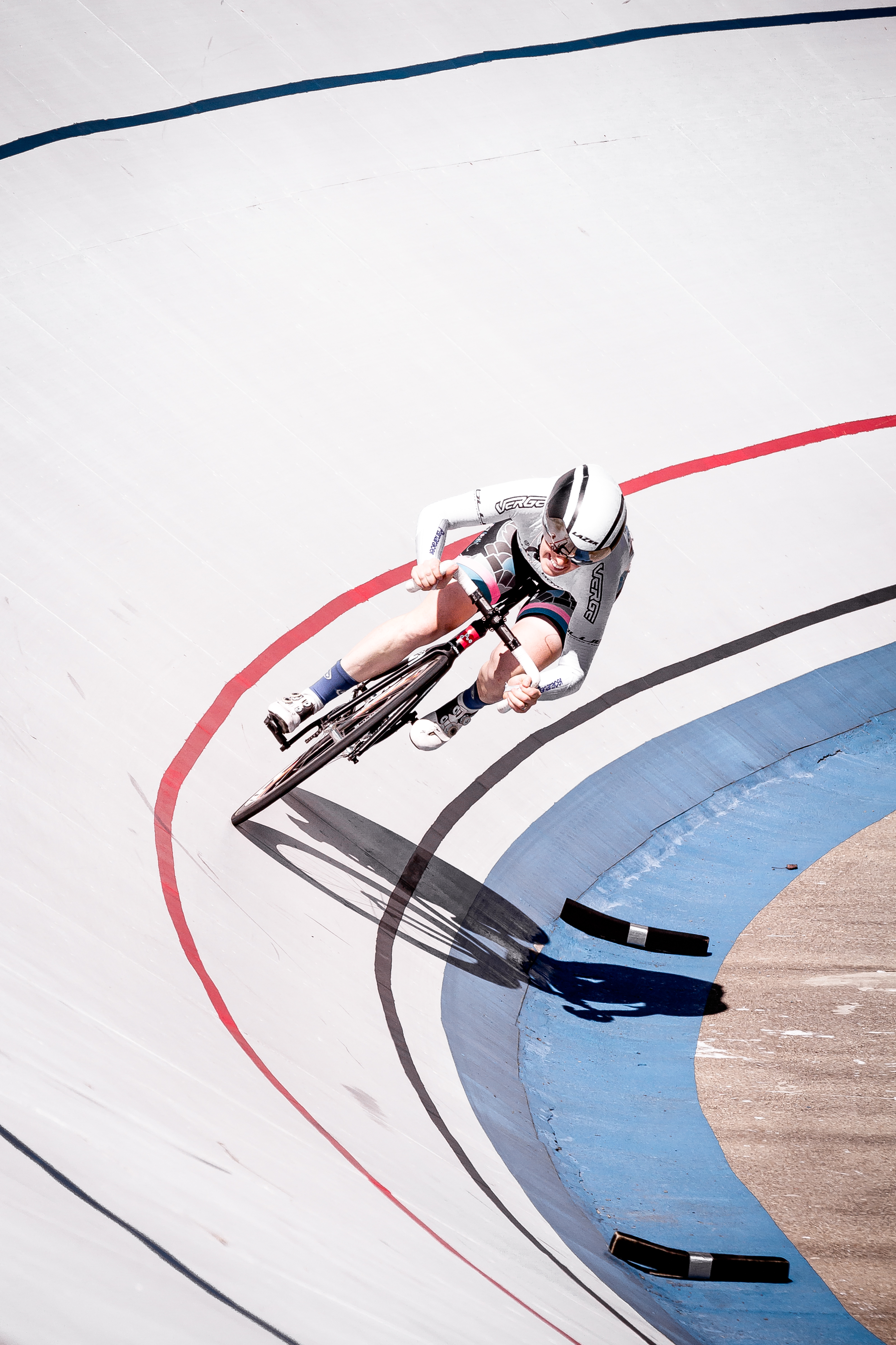 Marie-Soleil Blais of Happy Tooth Pro Cycling. Quebec Provincial Track Cycling Championships, Bromont, August 26th & 27th, 2016..